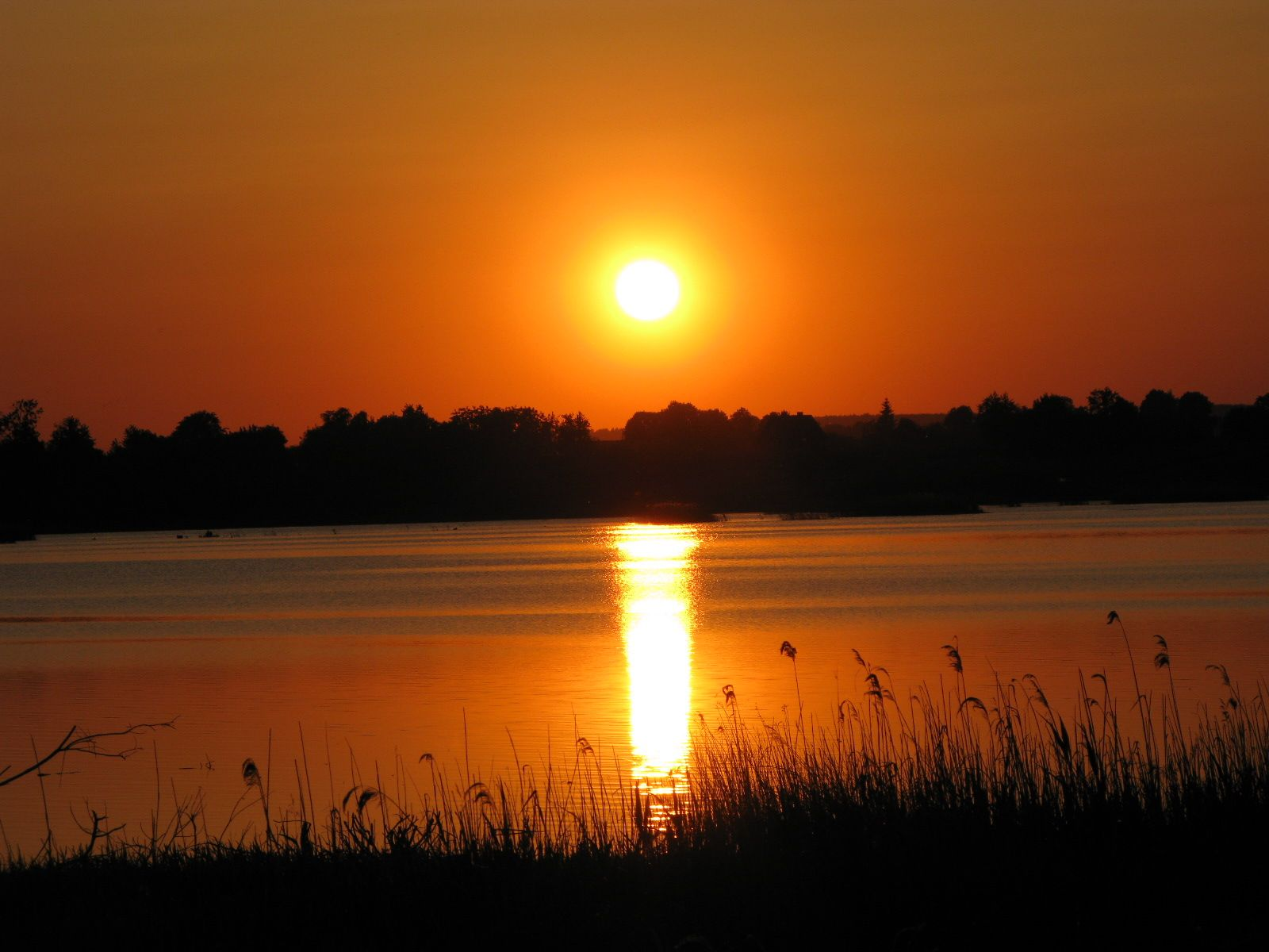 zalew nielisz